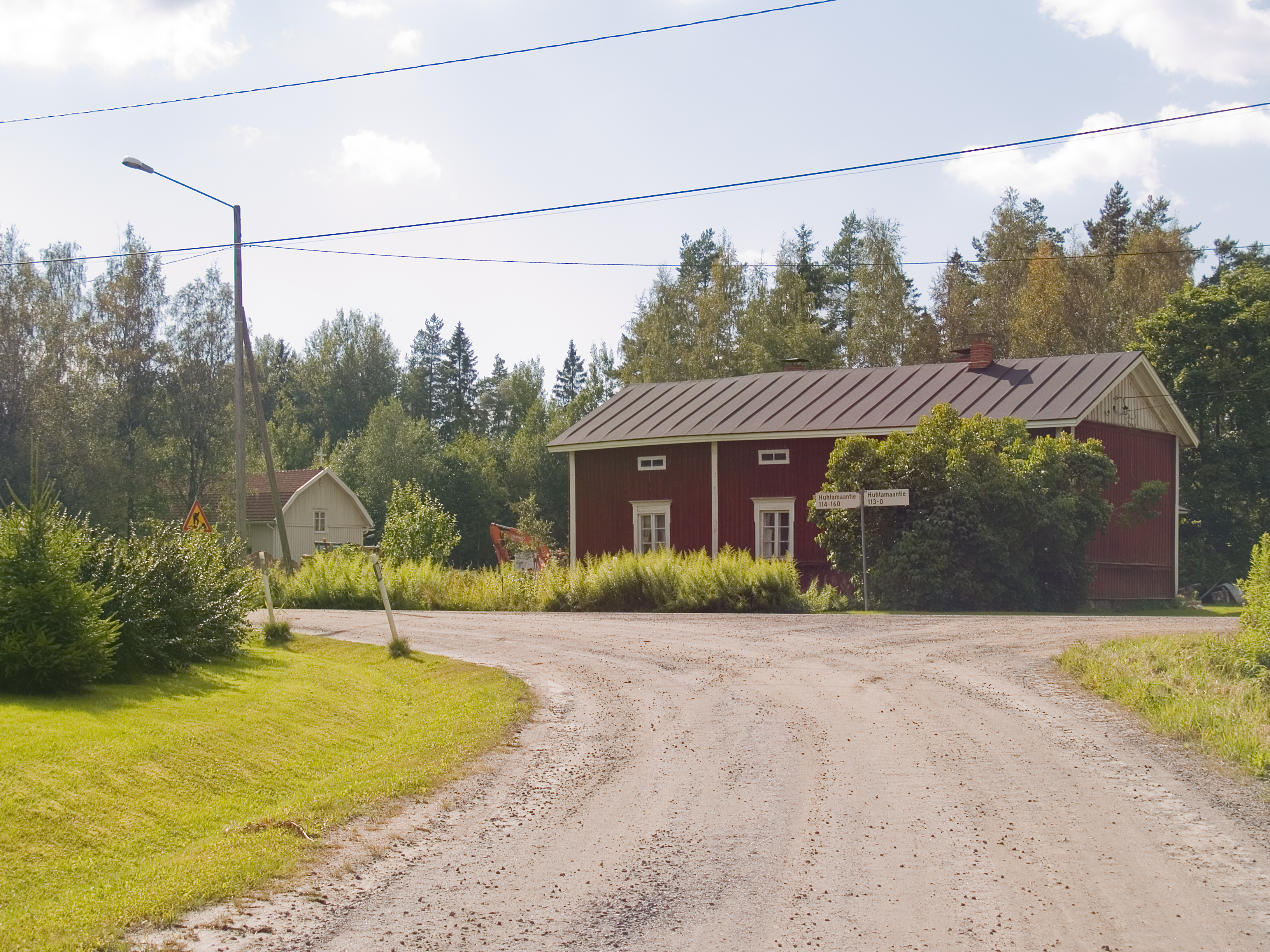 View from Pojanluoma village, Ilmajoki, Finland.